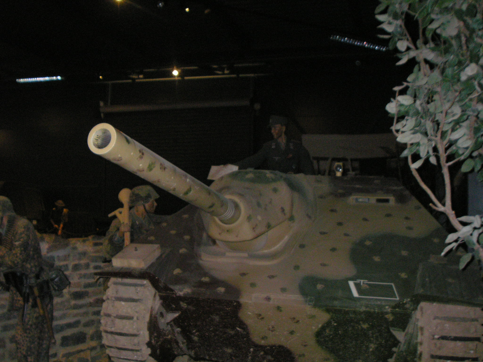 A Hetzer on display at Imperial War Museum Duxford. Photo taken 5 May 2006.